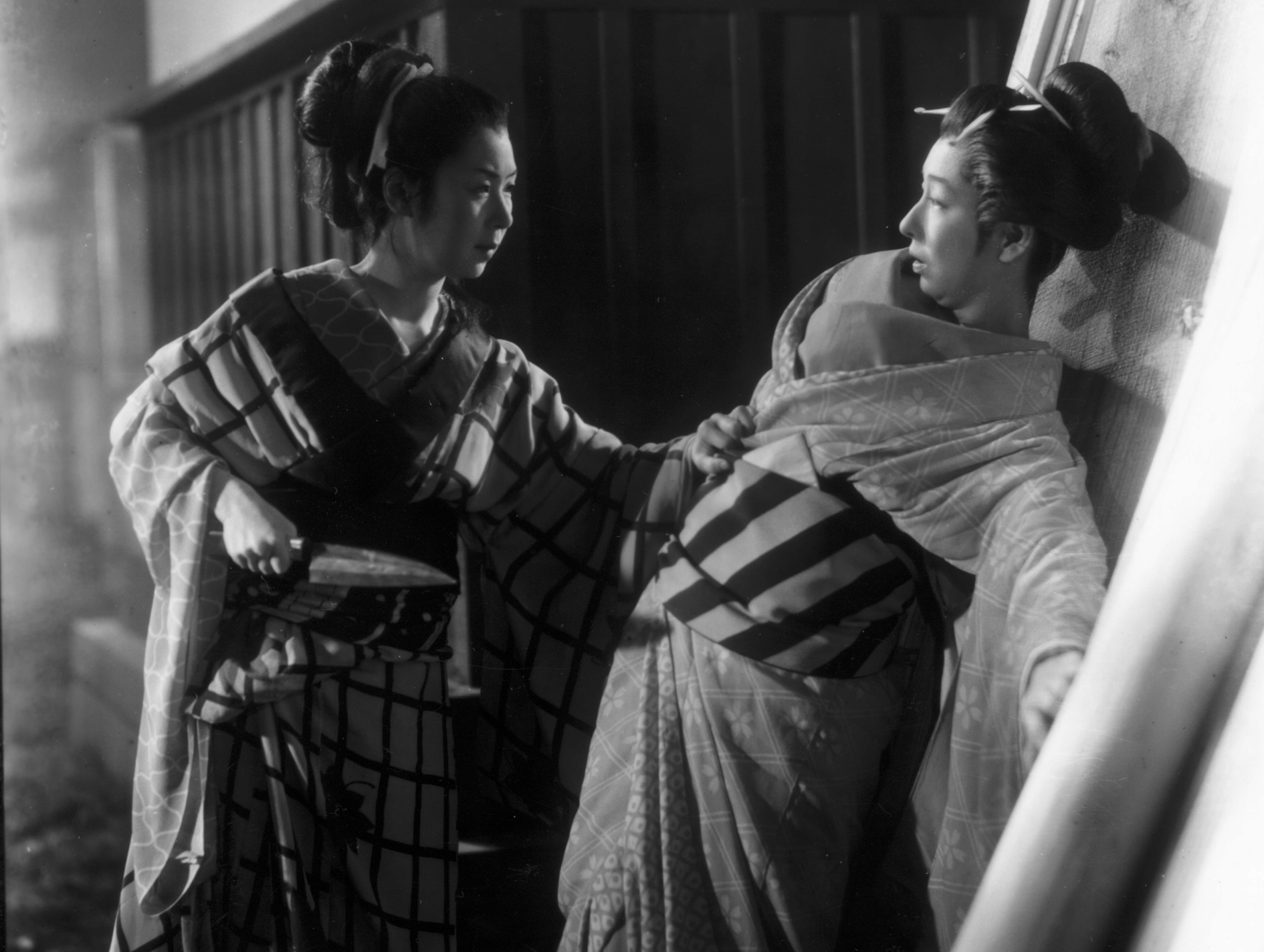 Kinuyo Tanaka and Toshiko Iizuka in Utamaro o meguru gonin no onna (歌麿をめぐる五人の女) directed by Kenji Mizoguchi - 1946